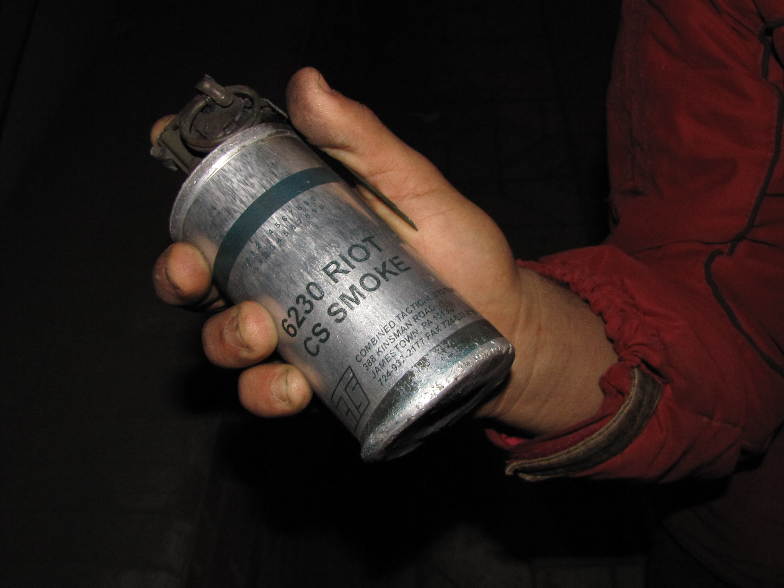 American-made tear gas grenade utilizing CS gas, used by Egyptian riot police during the Friday of Anger, in the w:2011 Egyptian protests